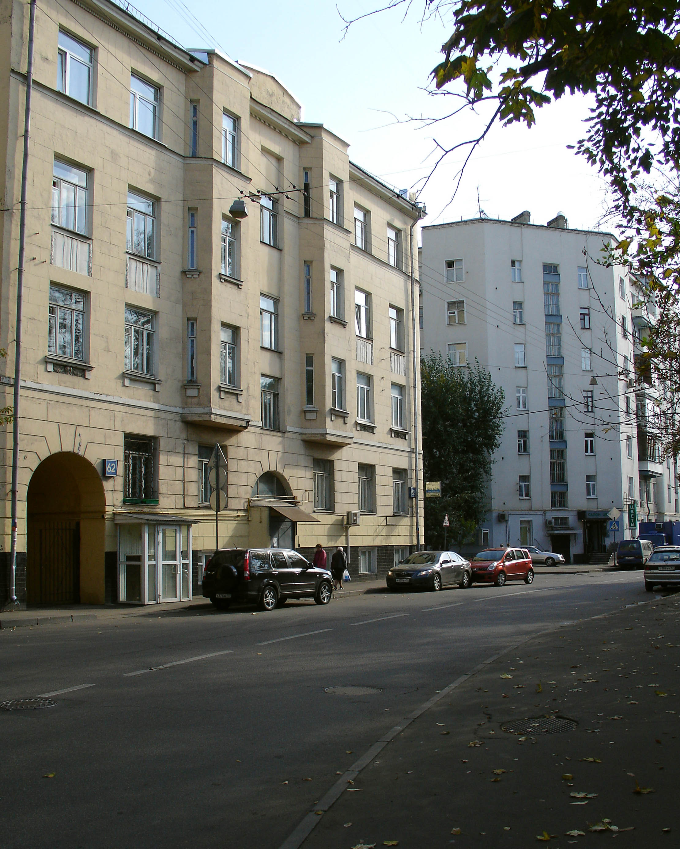 Schepkina 62 and 60, corner of Bolnichny Lane